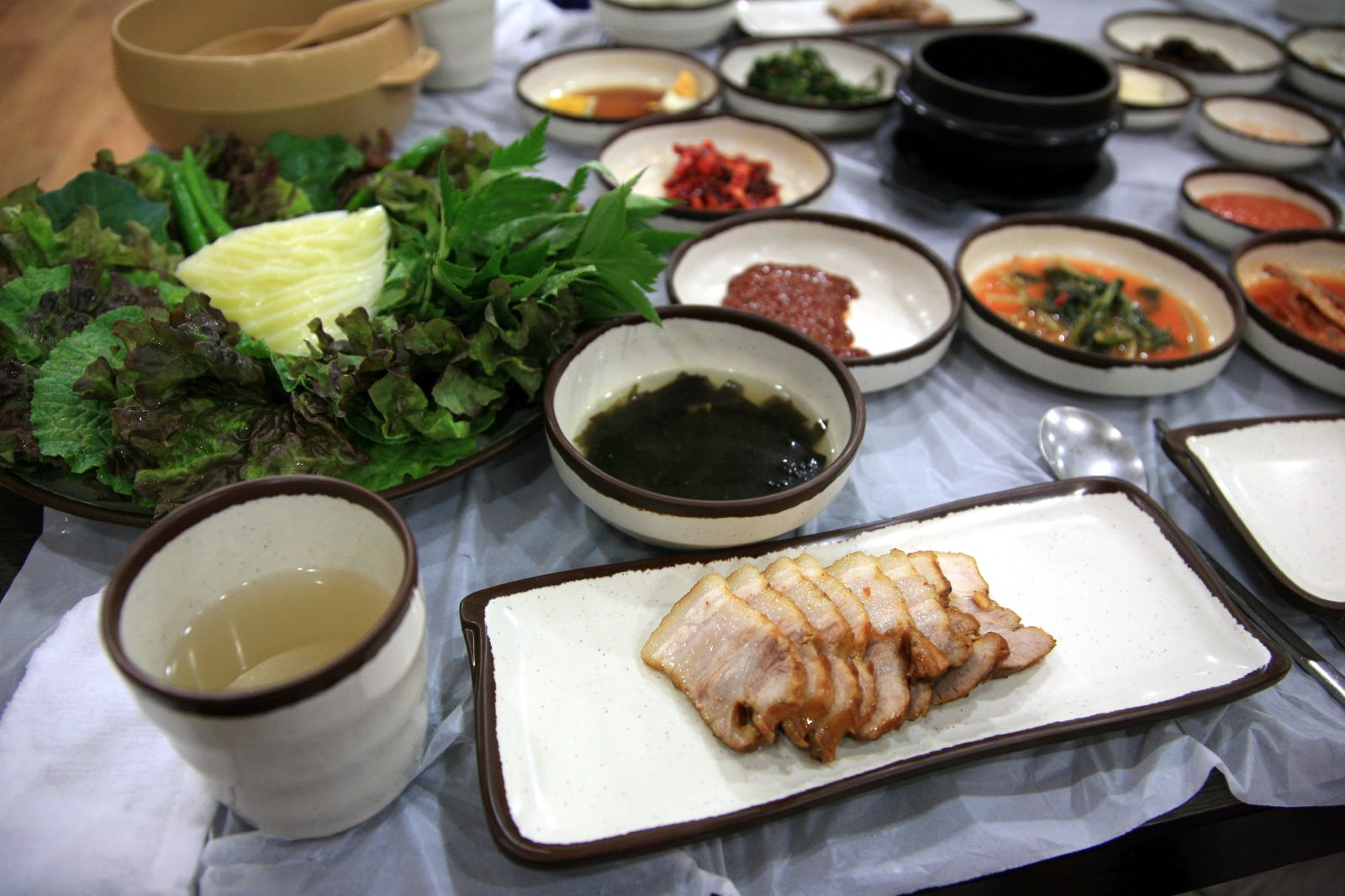 A view of a Namhae, South Korea